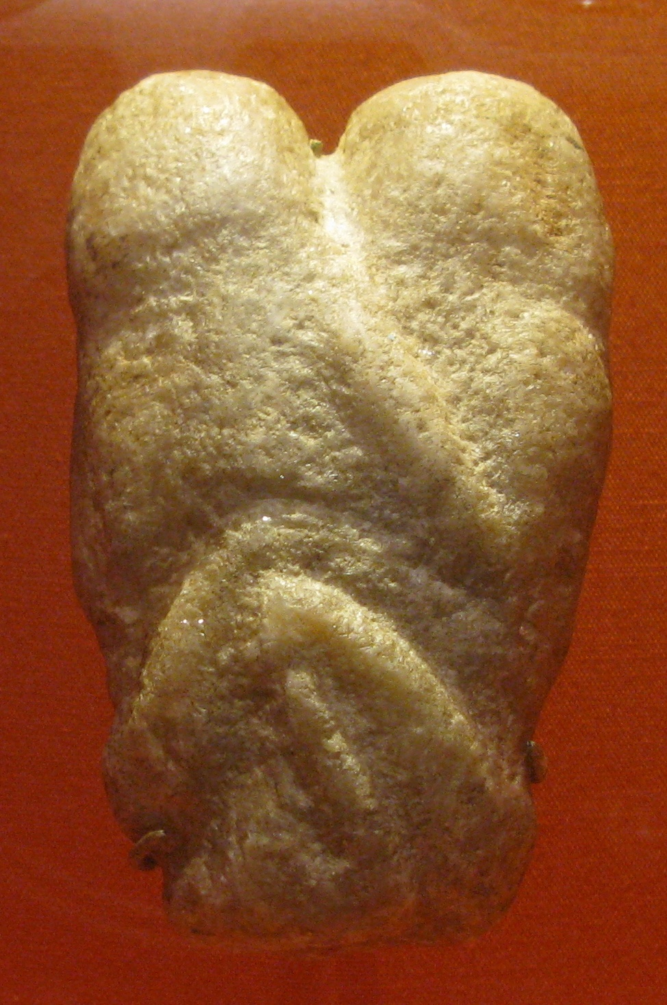 Photo of an 11 thousand year old sculpture belived to depepict a couple haveing sex. Now in the british museum. Originates ain sakhri judea.